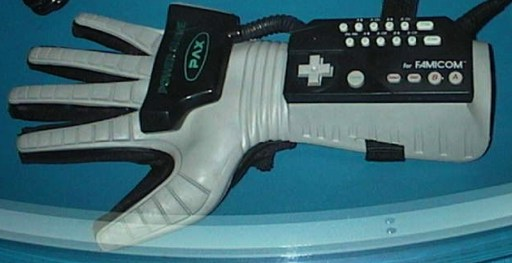 Der japanische Power Glove der Firma PAX Originallizenztext in der en.WP "Daniel Khan, I took the image myself therefore I am the author and am licensing it under all rights explicitly released by author."